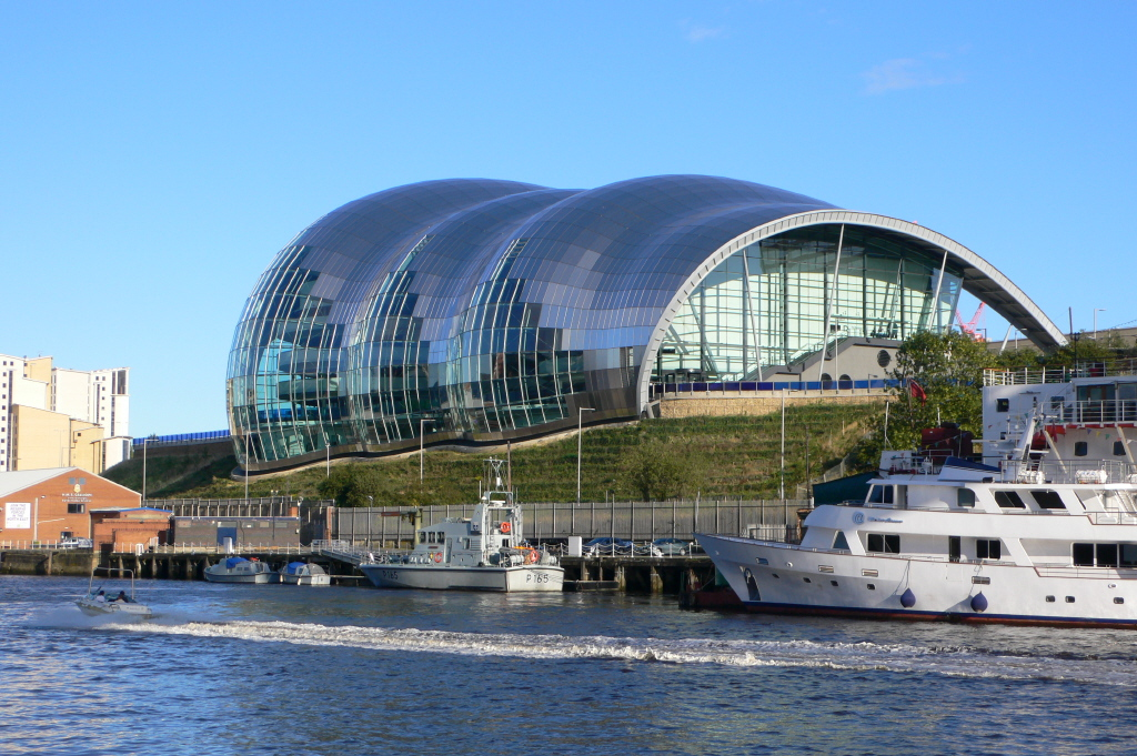 Tyne view, my image August 2006, jimfbleak 05:44, 10 September 2006 (UTC)